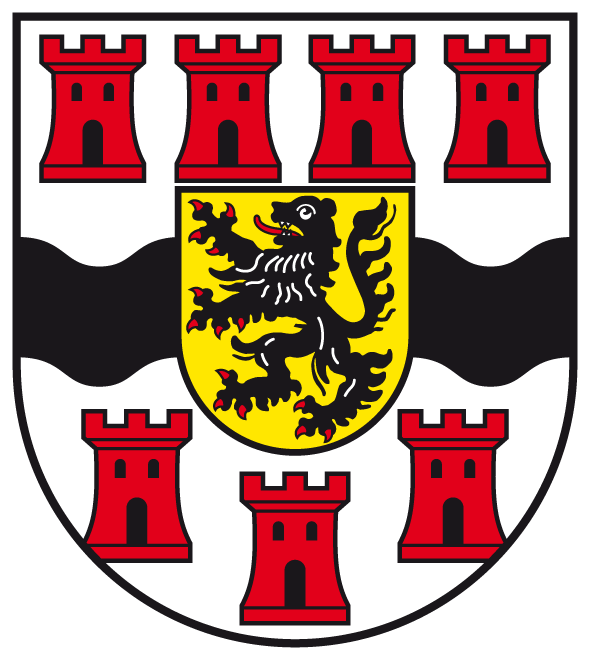 coat of arms of the former German district Liebenwerda